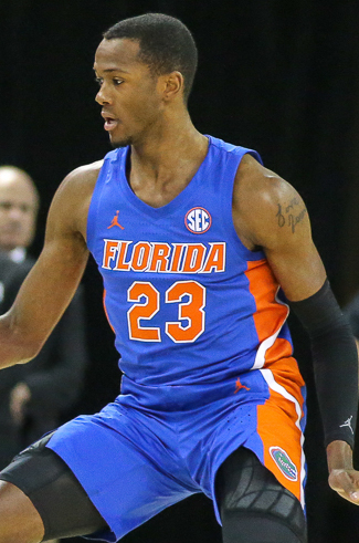 Photo by Chris Gillespie